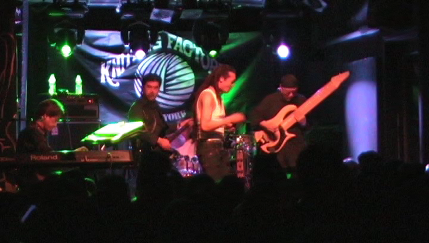 Flower Travellin' Band at the Knitting Factory